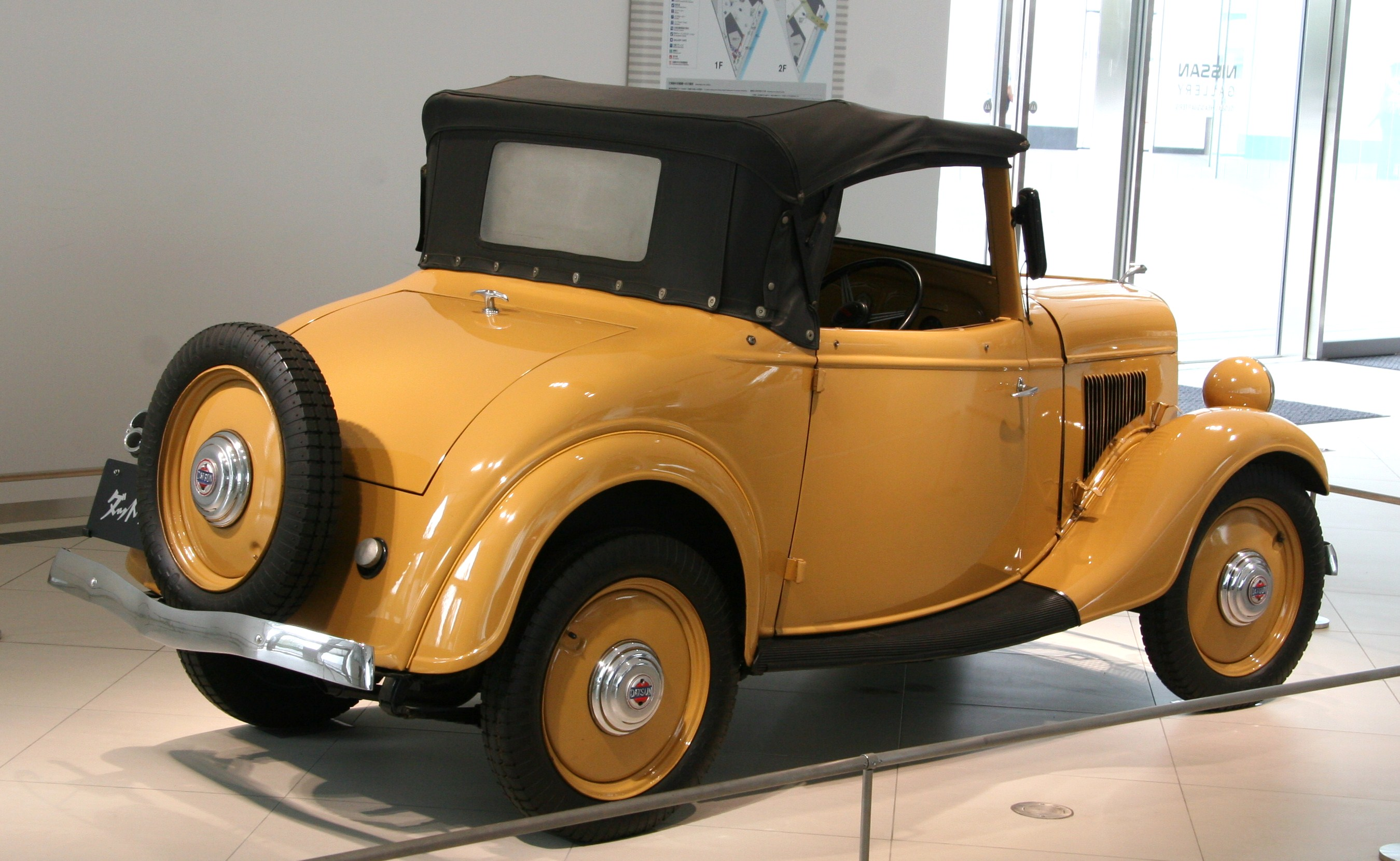 Datsun Model 14